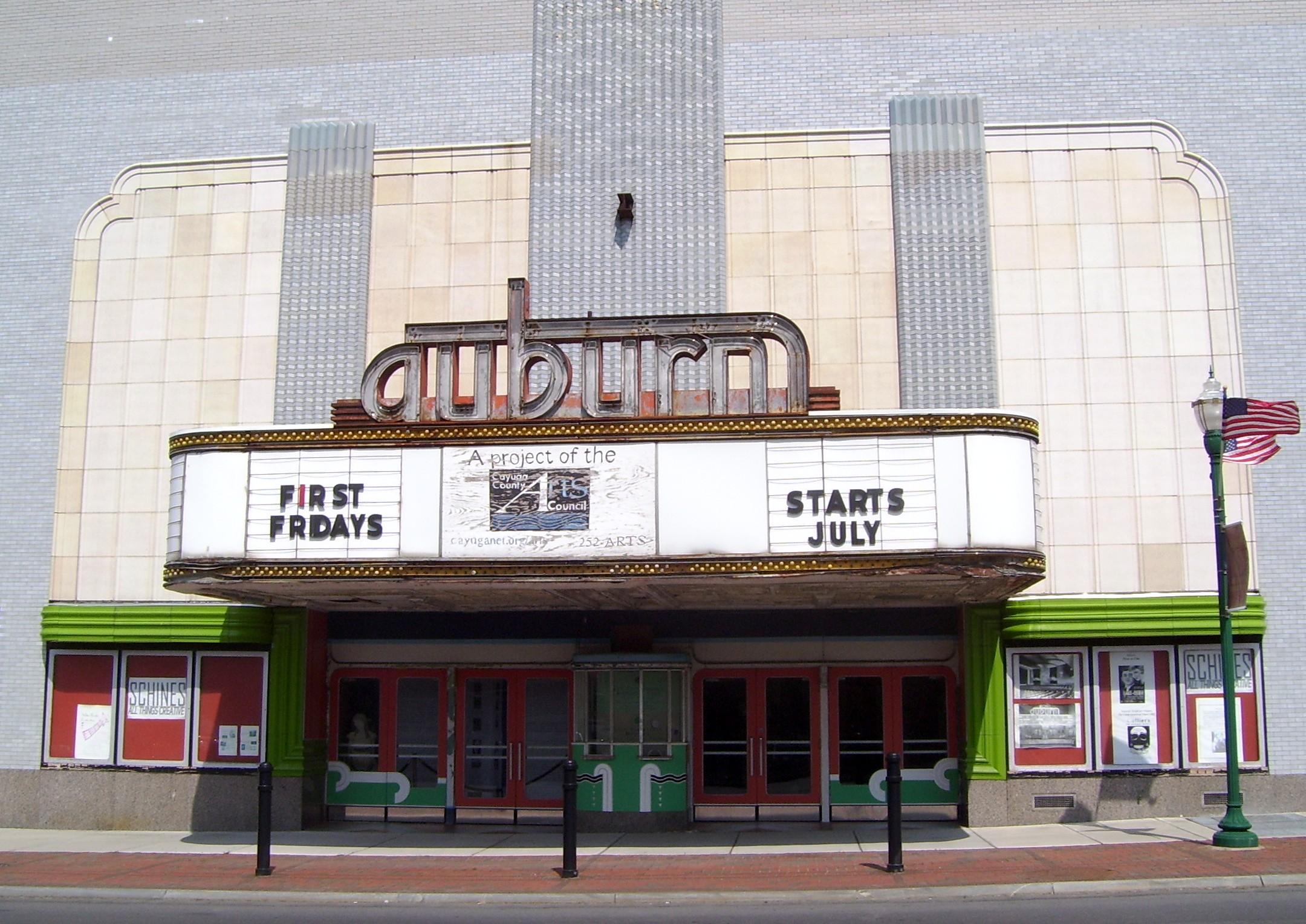 Schines Auburn Theatre, located at 12-15 South Street between Genesee and Lincoln Streets in Auburn, New York, was built in 1938 and was designed by John Eberson in the Streamline Moderne Art Deco style. It contains a 2,000-seat auditorium. The building has been undergoing renovation since 2003, and the project was not complete as of 2012.